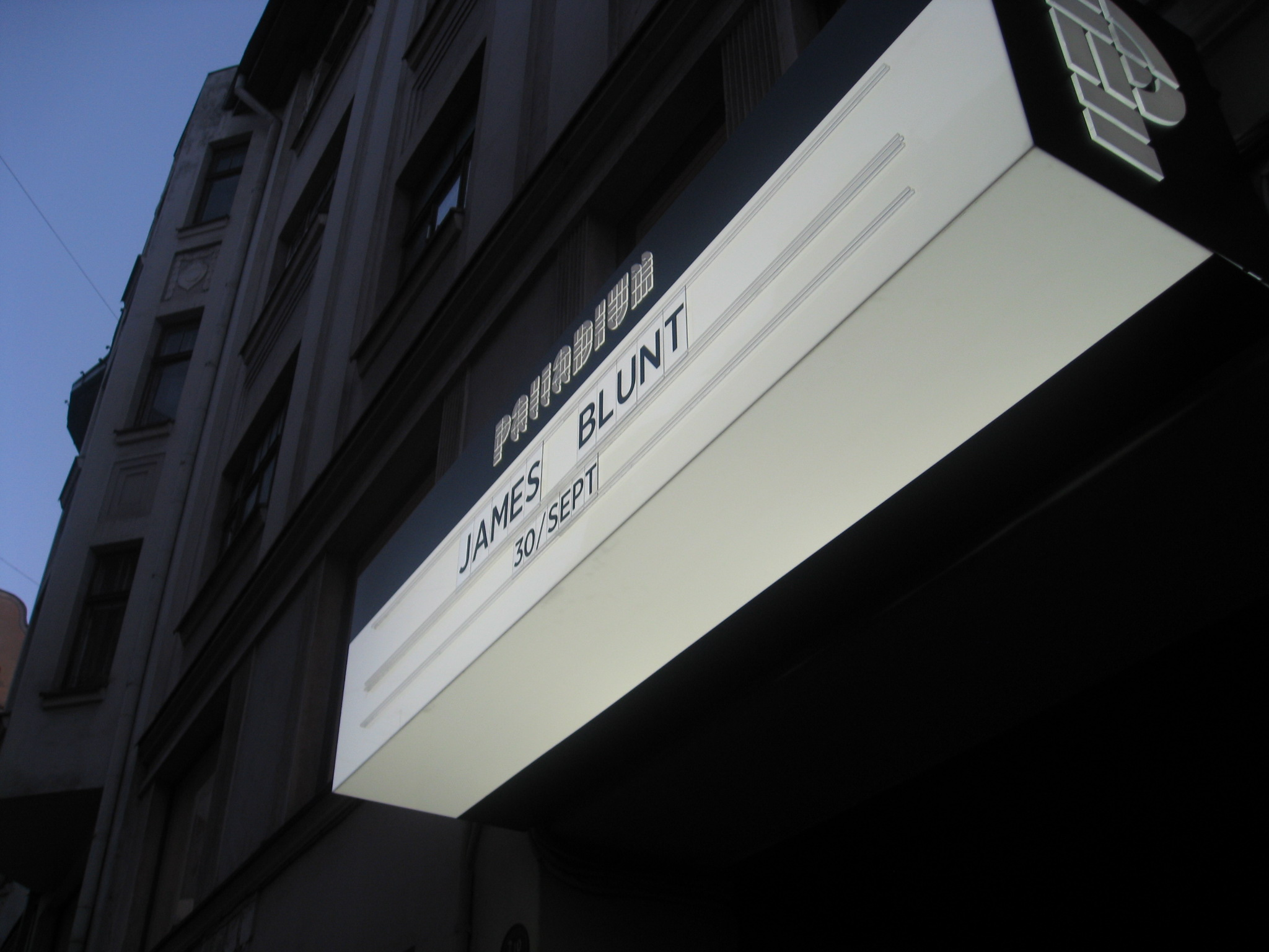 James Blunt in Palladium - the first concert in this venue since reopening